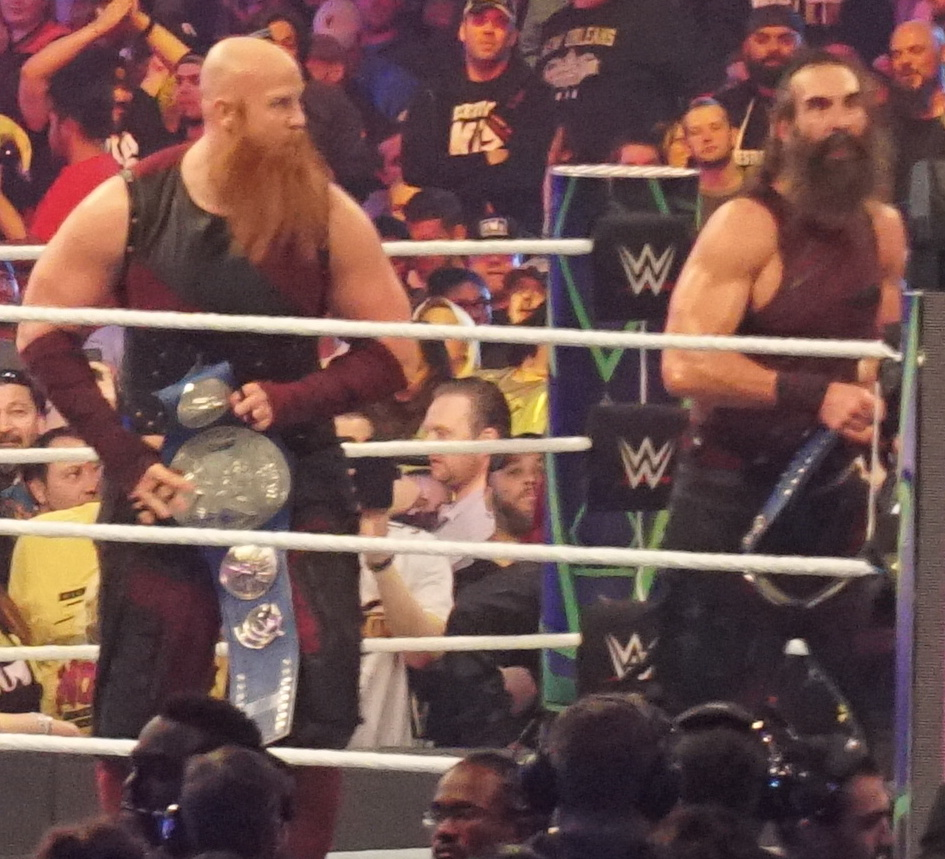 NOLA 2018 - WWE Wrestlemania 34 - Erick Rowan & Luke Harper Vs Jey Uso & Jimmy Uso, Big E & Kofi Kingston Erick Rowan & Luke Harper def. (pin) Jey Uso (c) & Jimmy Uso (c), Big E & Kofi Kingston (in 05:54) Type of match : triple-threat tag For : WWE Smackdown Tag Team Championship (title change) Rating : ** ( Deux semaines a Nola pour la ville et pour WWE Wrestlemania XXXIV Two weeks Nola for the city and for WWE Wrestlemania XXXIV )